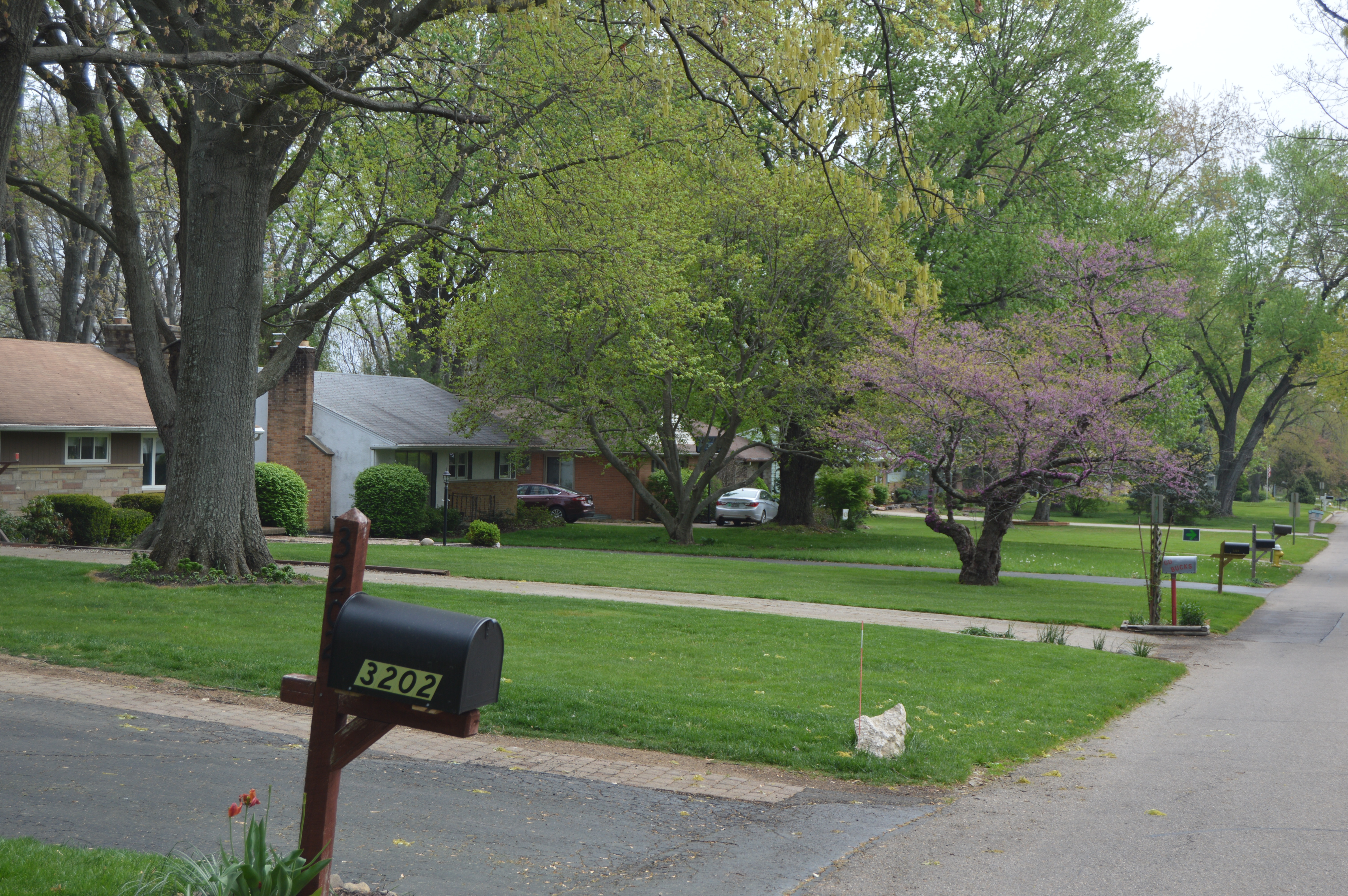 Houses on the northern side of Minerva Lake Road, east of the Fairview Drive intersection, in Minerva Park, Ohio, United States.